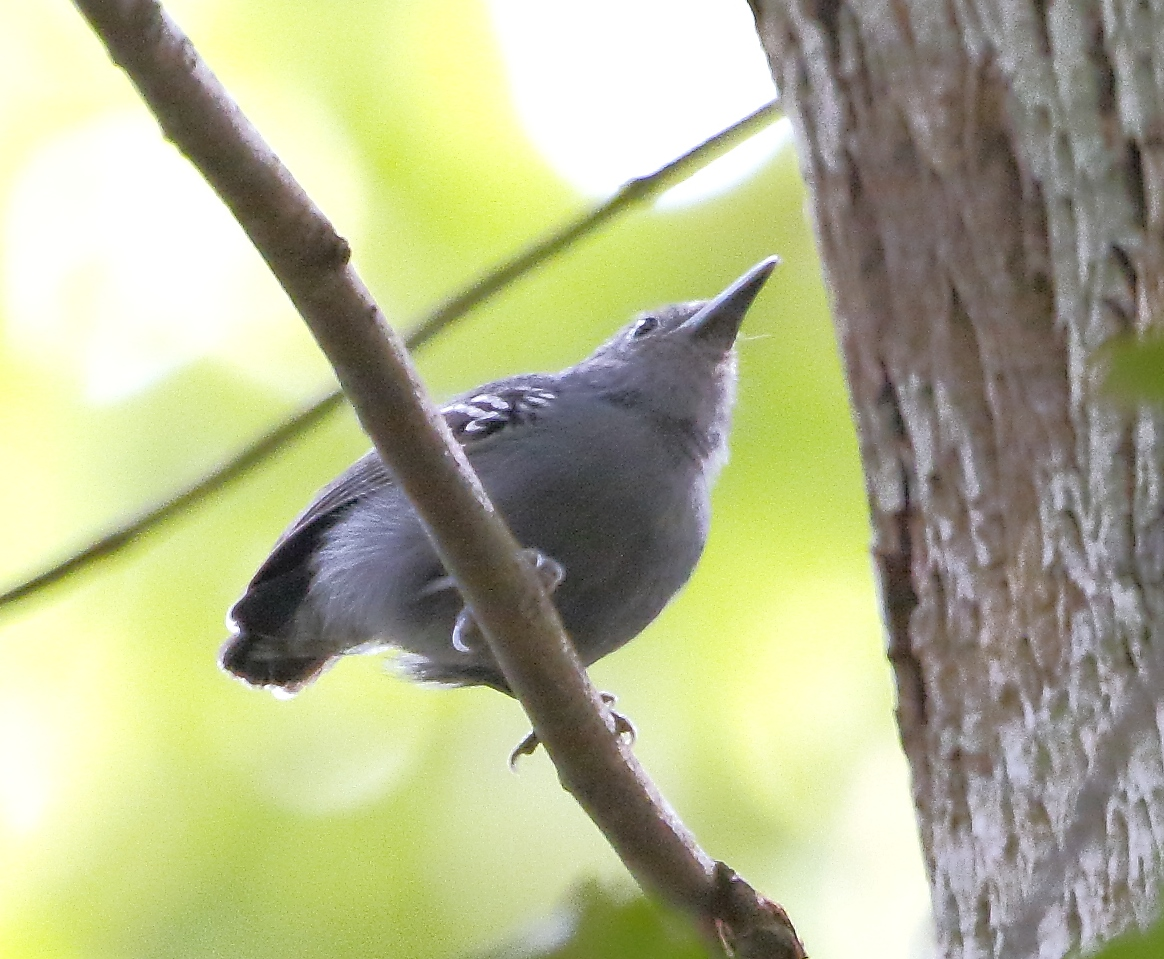 Grey antwren (male) at Floresta Nacional de Carajás - Pará - Brazil